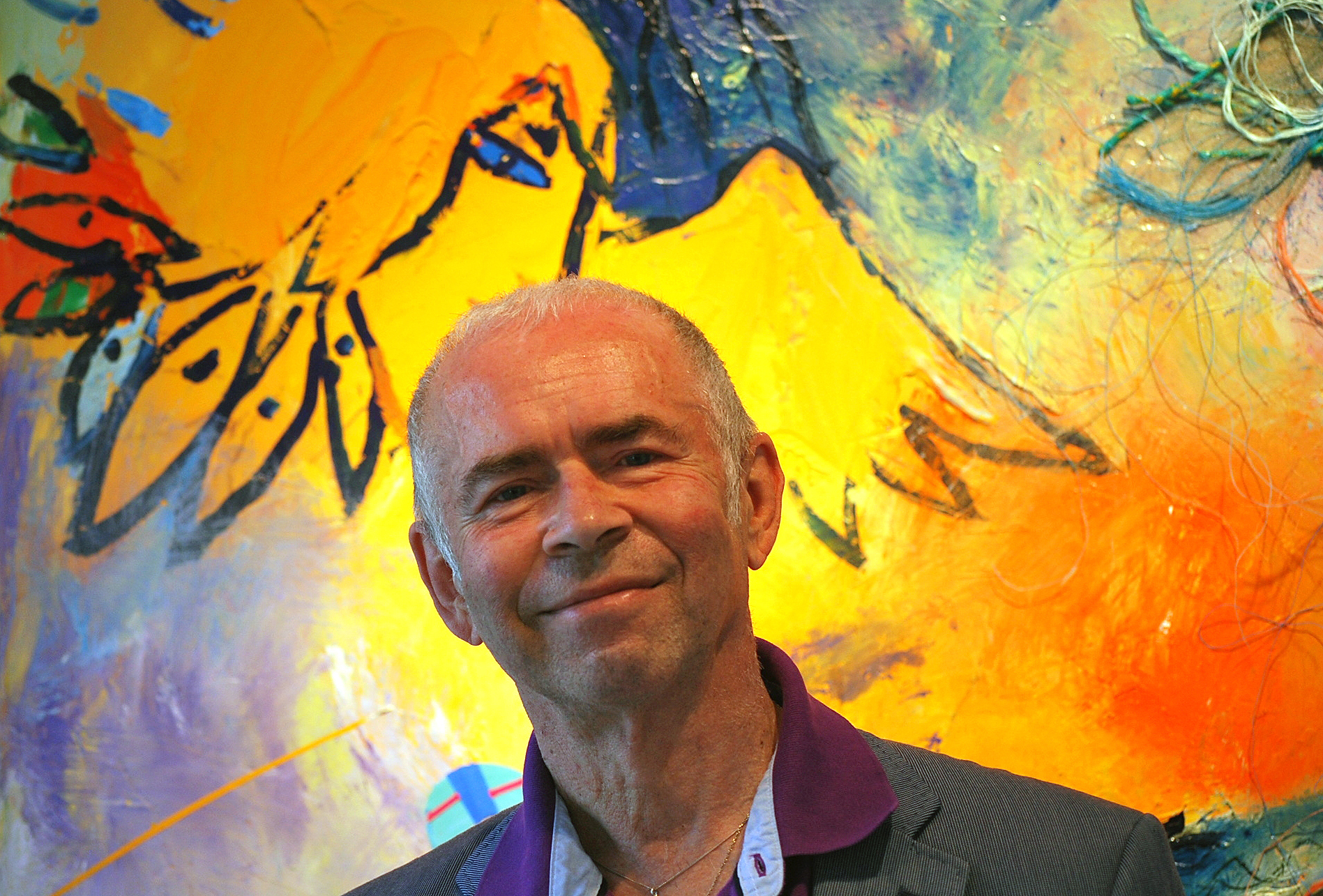 The Austrian artist Adi Holzer stands against his painting "Jammerbucht". He lives in Denmark in the town Værløse nearby Copenhagen and works in his studios in Værløse, Denmark and in Winklern, Carinthia, Austria.